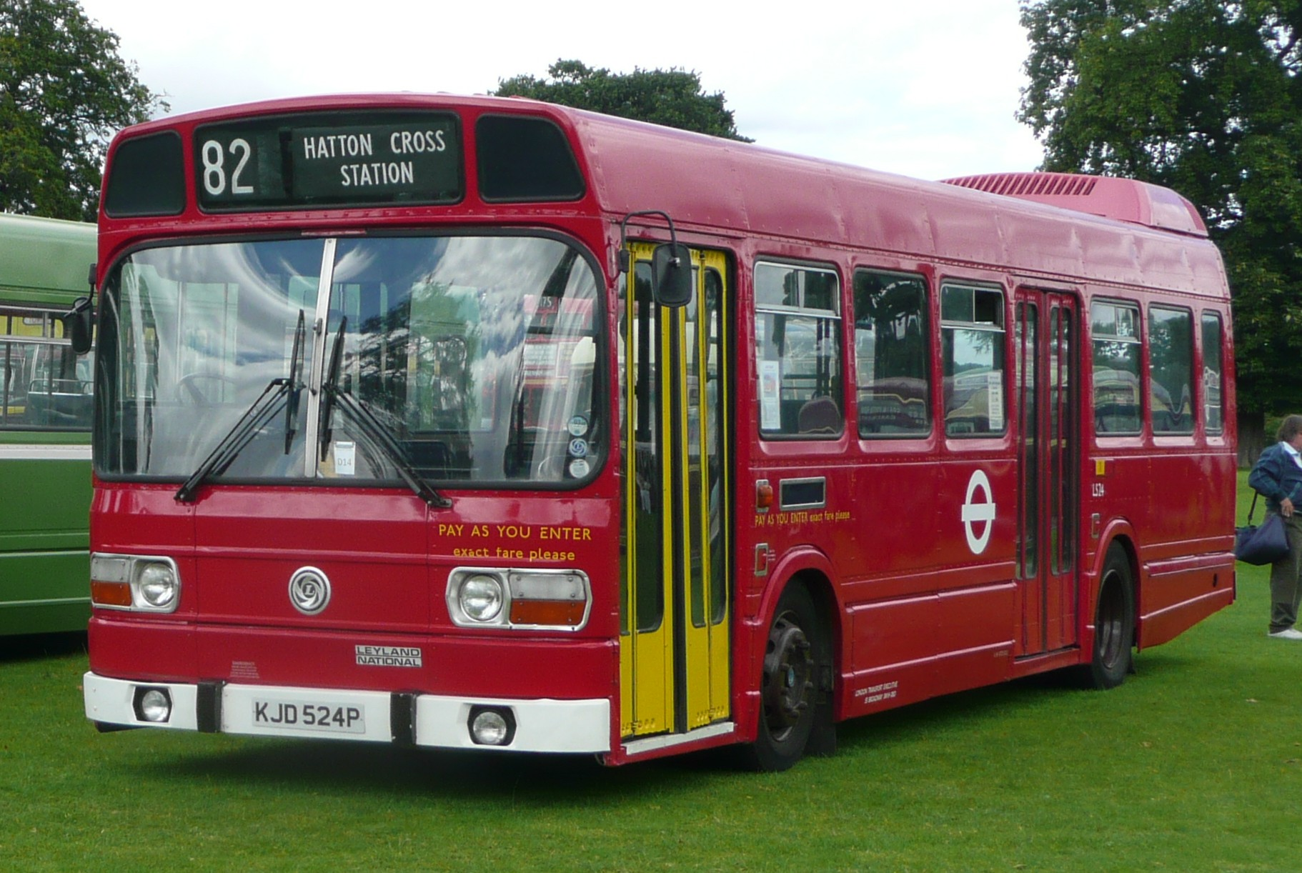 Preserved London Transport LS24 (KJD 524P), a Leyland National, at the 2008 Alton bus rally at Anstey Park.